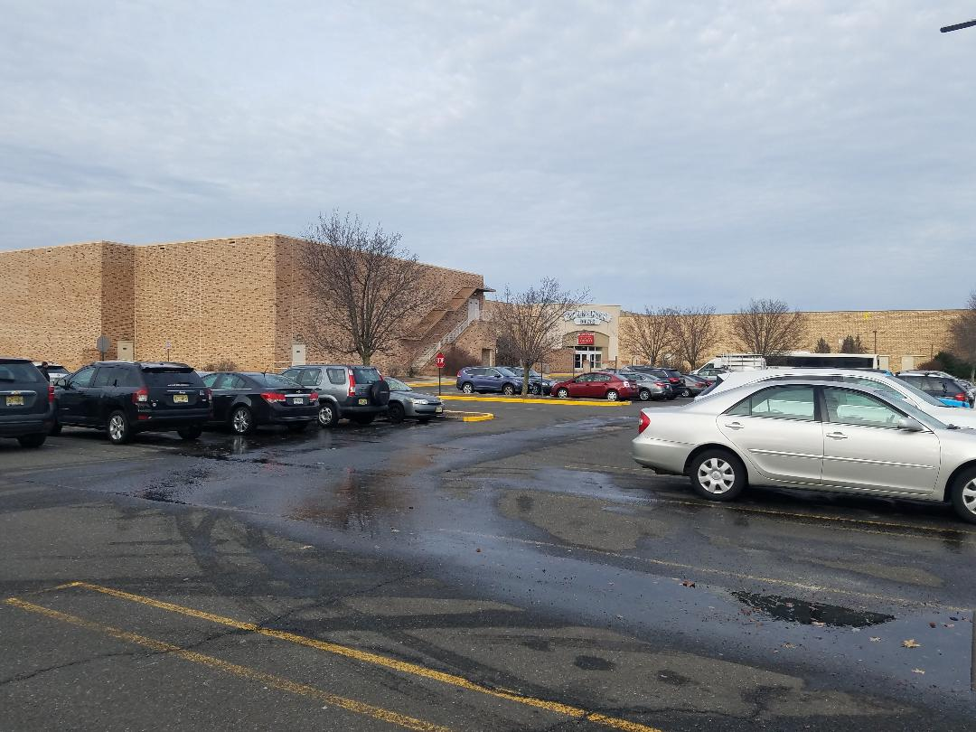 A Photo pointed to the edge of the mall in the entrance close to the theater